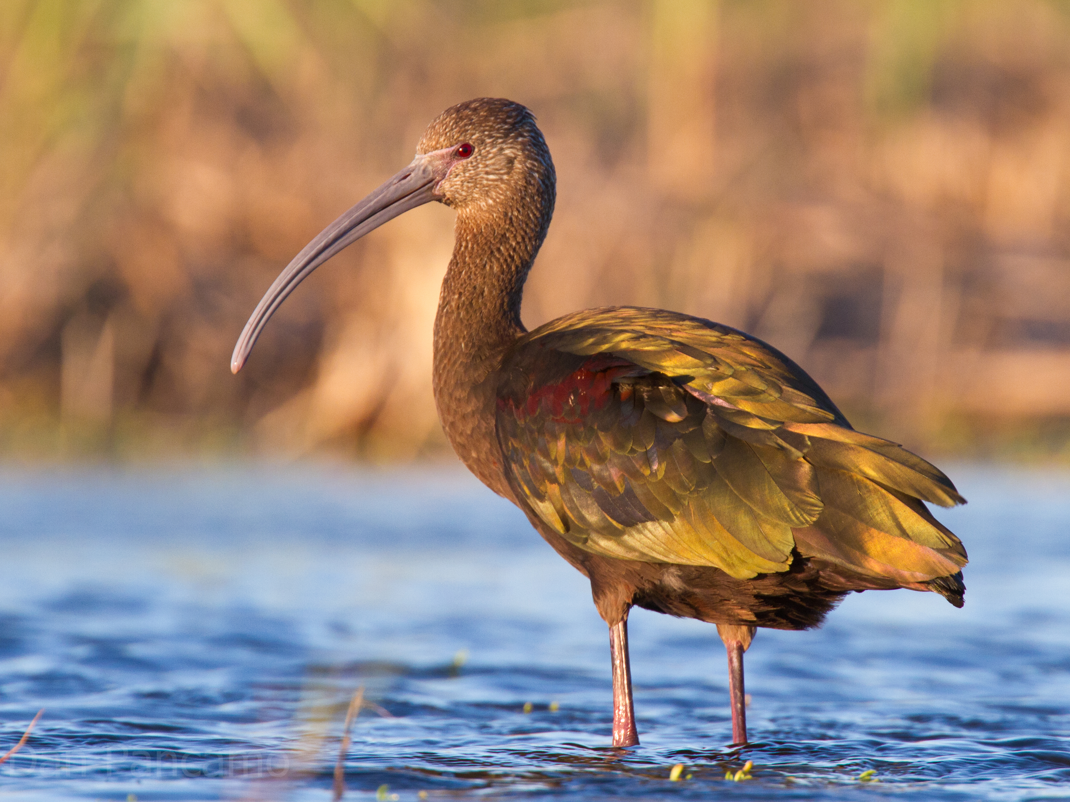 White-faced Ibis Plegadis chihi, Freeport, Texas, USA